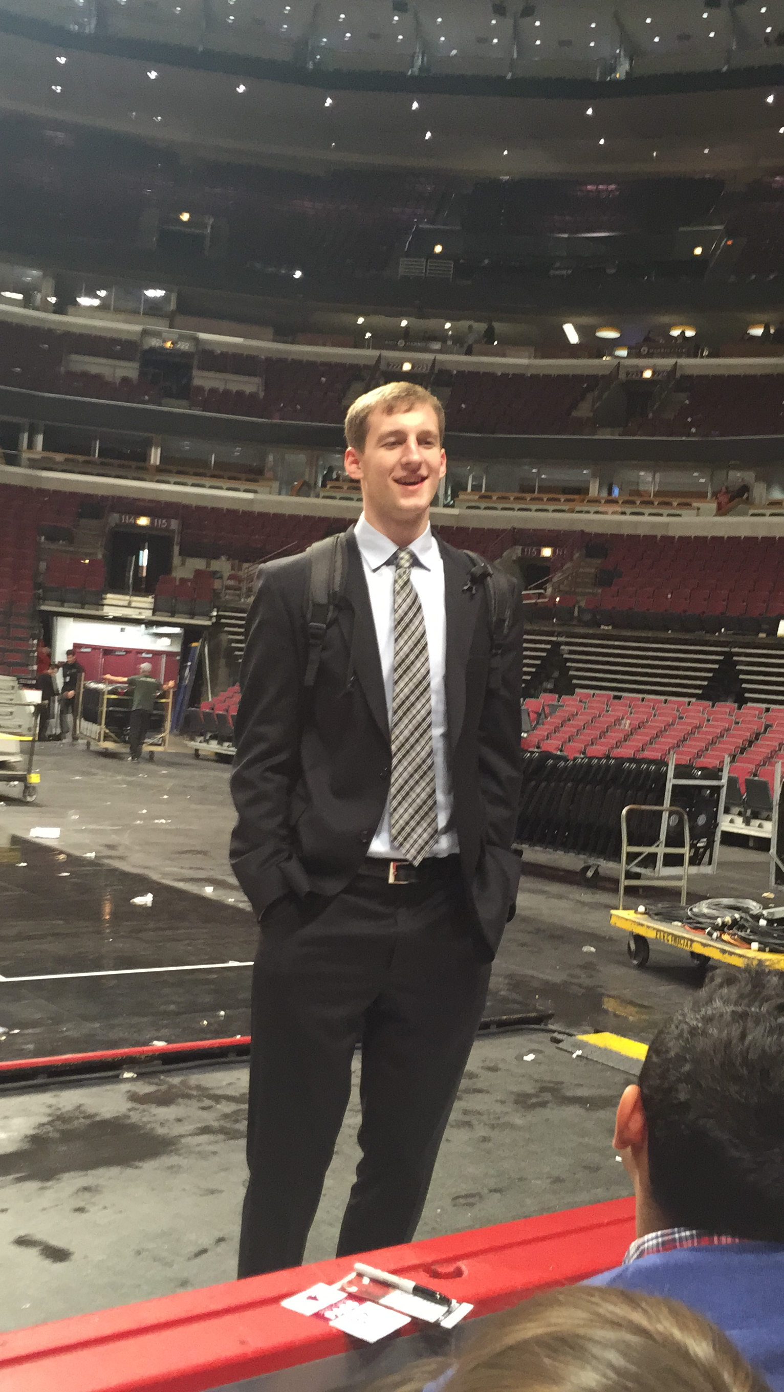 Cody Zeller, IU Hoosiers standout and now member of Charlotte Bobcats/Hornets of NBA in Chicago, spring 2015